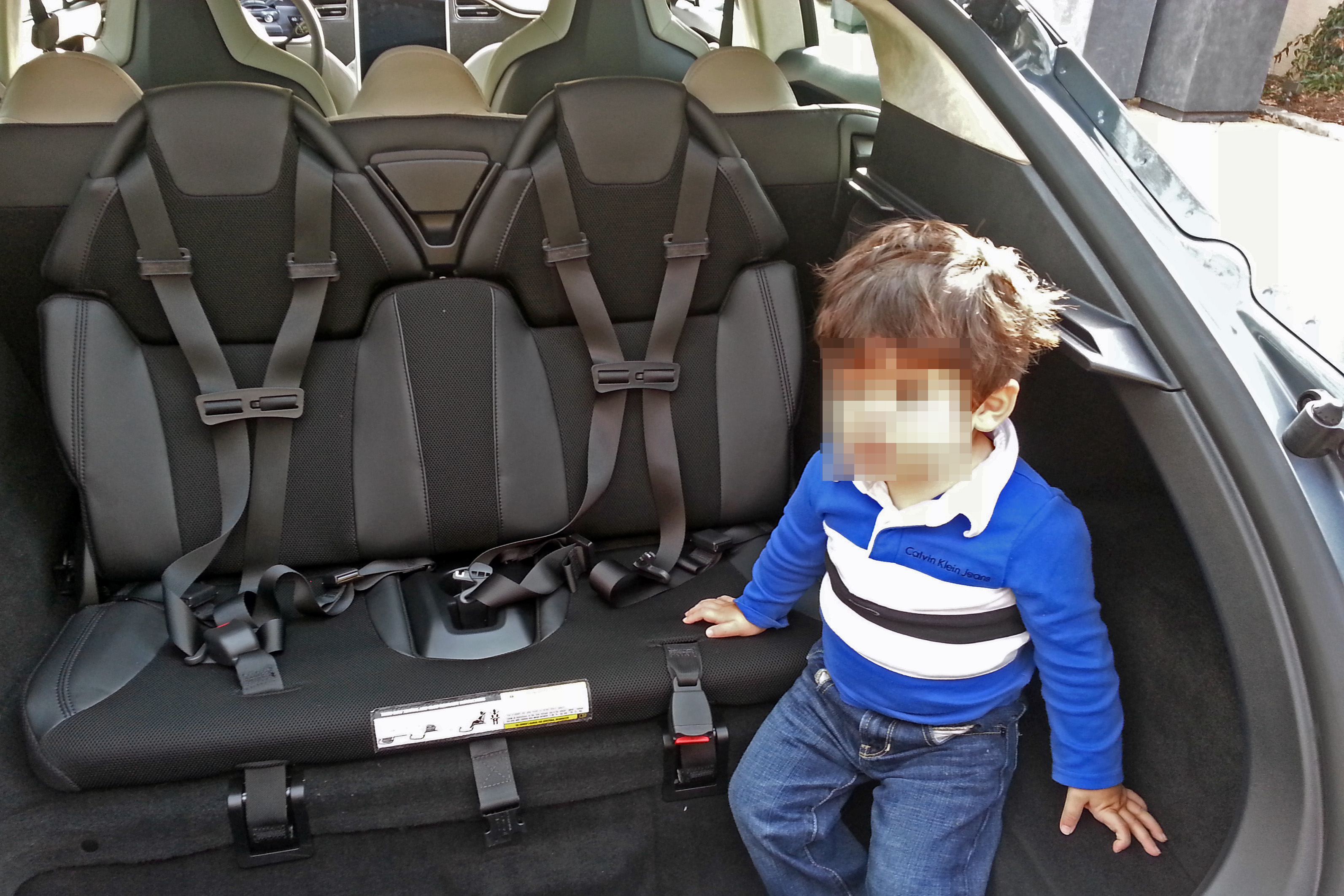 Tesla Model S optional rear-facing two-place child seat.